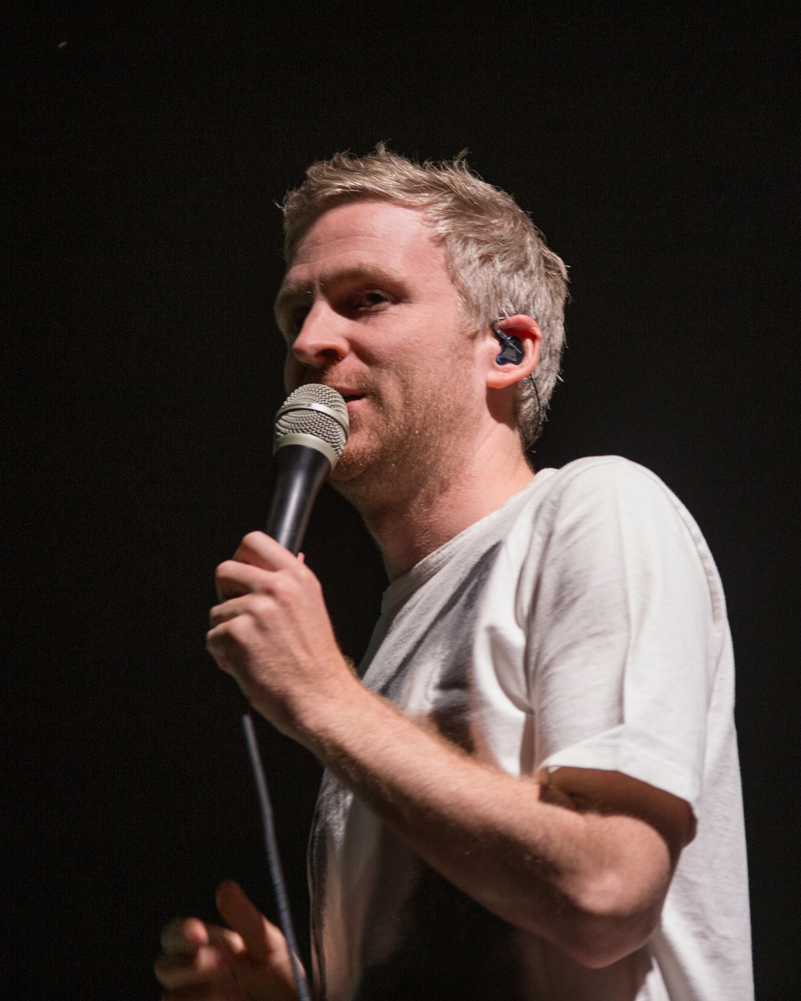 Ólafur Arnalds playing during the Rudolstadt-Festival 2019.